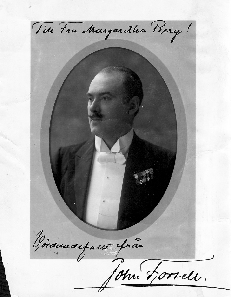 John Forsell (1868-1941), Swedish opera singer (baritone) and head of the Royal Swedish Opera 1924 - 1939.